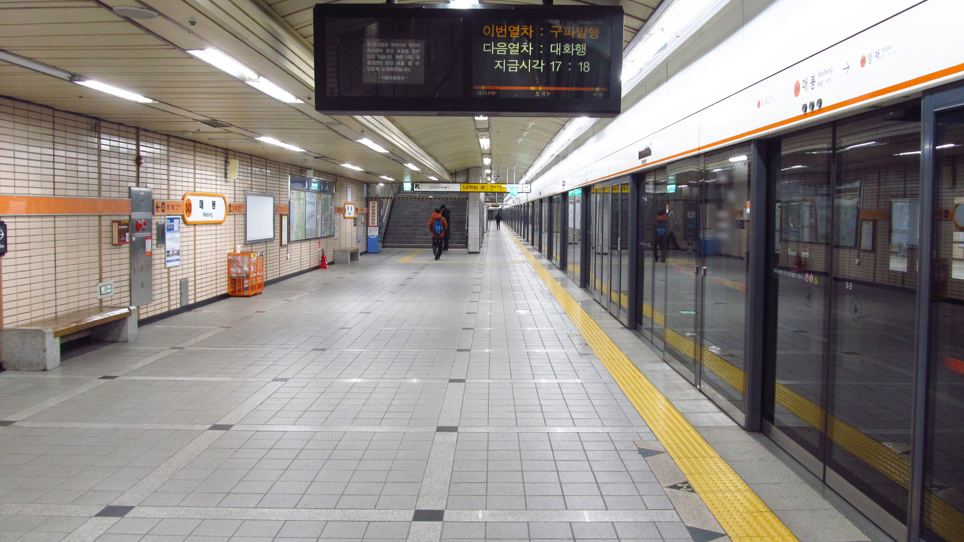 The platform at Maebong Station on Seoul Subway Line 3 in Gangnam-gu, Seoul, Republic of Korea(South Korea)